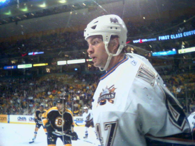 Bryan Muir playing for the Washington Capitals against the Boston Bruins